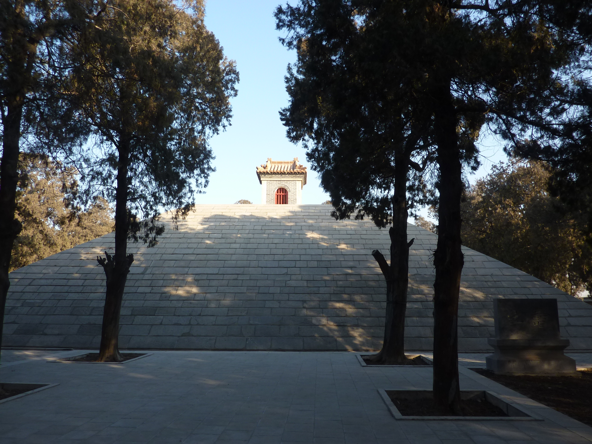 Shaohao Tomb site, east of Qufu. From the south to the north, includes a gate. a temple, a stone-faced pyramid, and an earth tumulus with the stele that says "Shaohao Ling" (Shaohao's Tomb) in front of it.